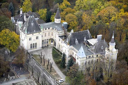 22keruletbudapestcivertanlegi4.jpg This is a photo of a monument in Hungary, Identifier: 11684